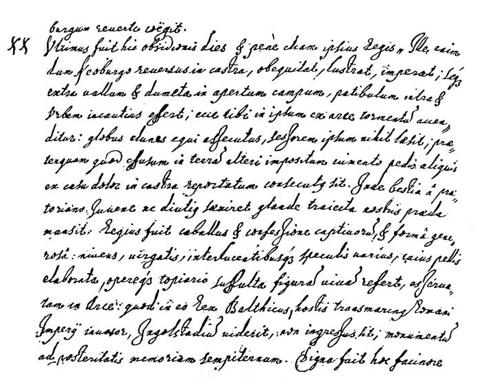 Text passage of the annual report of the Jesuit College of Ingolstadt describing the killing of King Gustav II. Adolf's horse during the siege of Ingolstadt in 1632